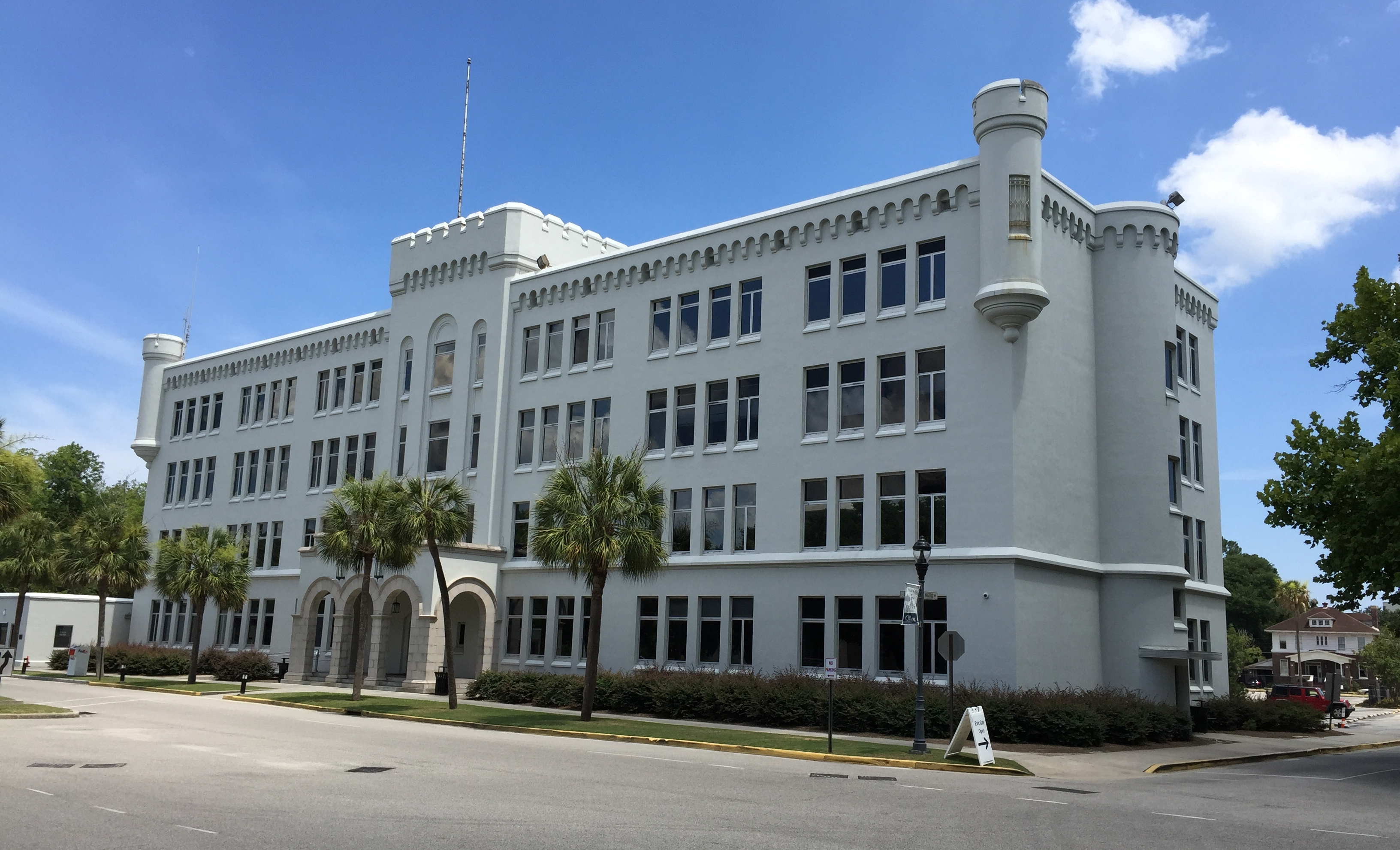 Capers Hall, The Citadel, Charleston, South Carolina